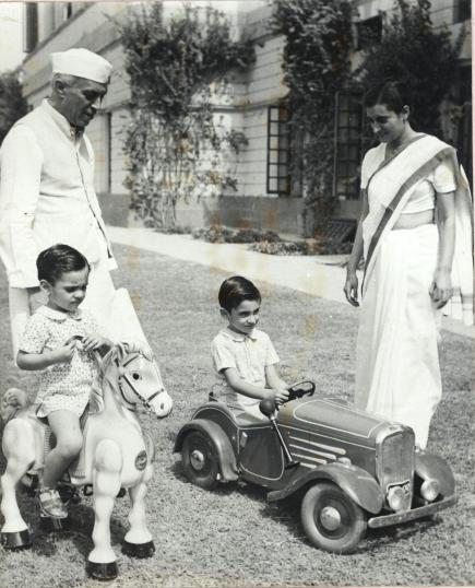 Jawaharlal Nehru with Indira, Rajiv and Sanjay Gandhi at Teen Murti House